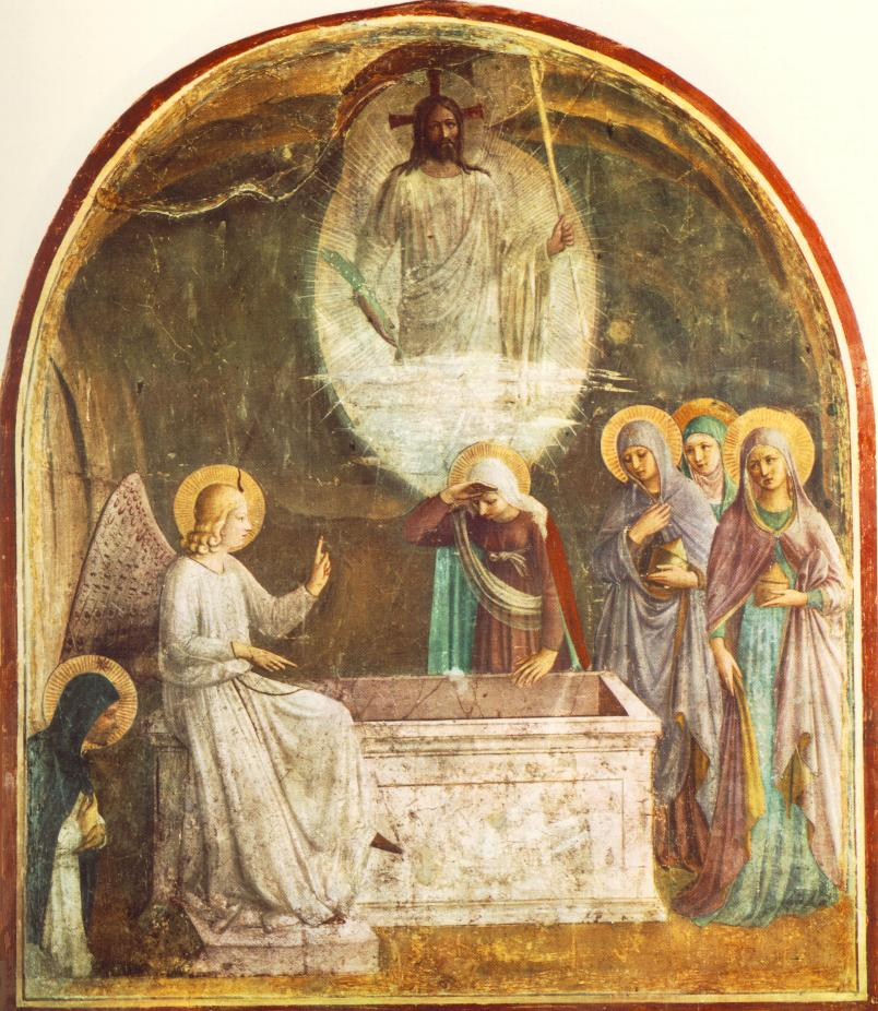 ANGELICO, Fra Resurrection of Christ and Women at the Tomb Fresco, 189 x 164 cm Convento di San Marco, Florence